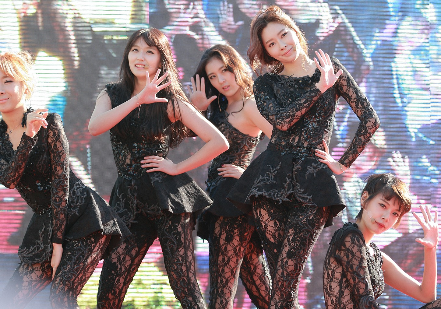 Rania at the Hyosung Angel Village Festival, 4 October 2013. Left to riight: Jooyi, Ta-e, Xia, Saem and Di.